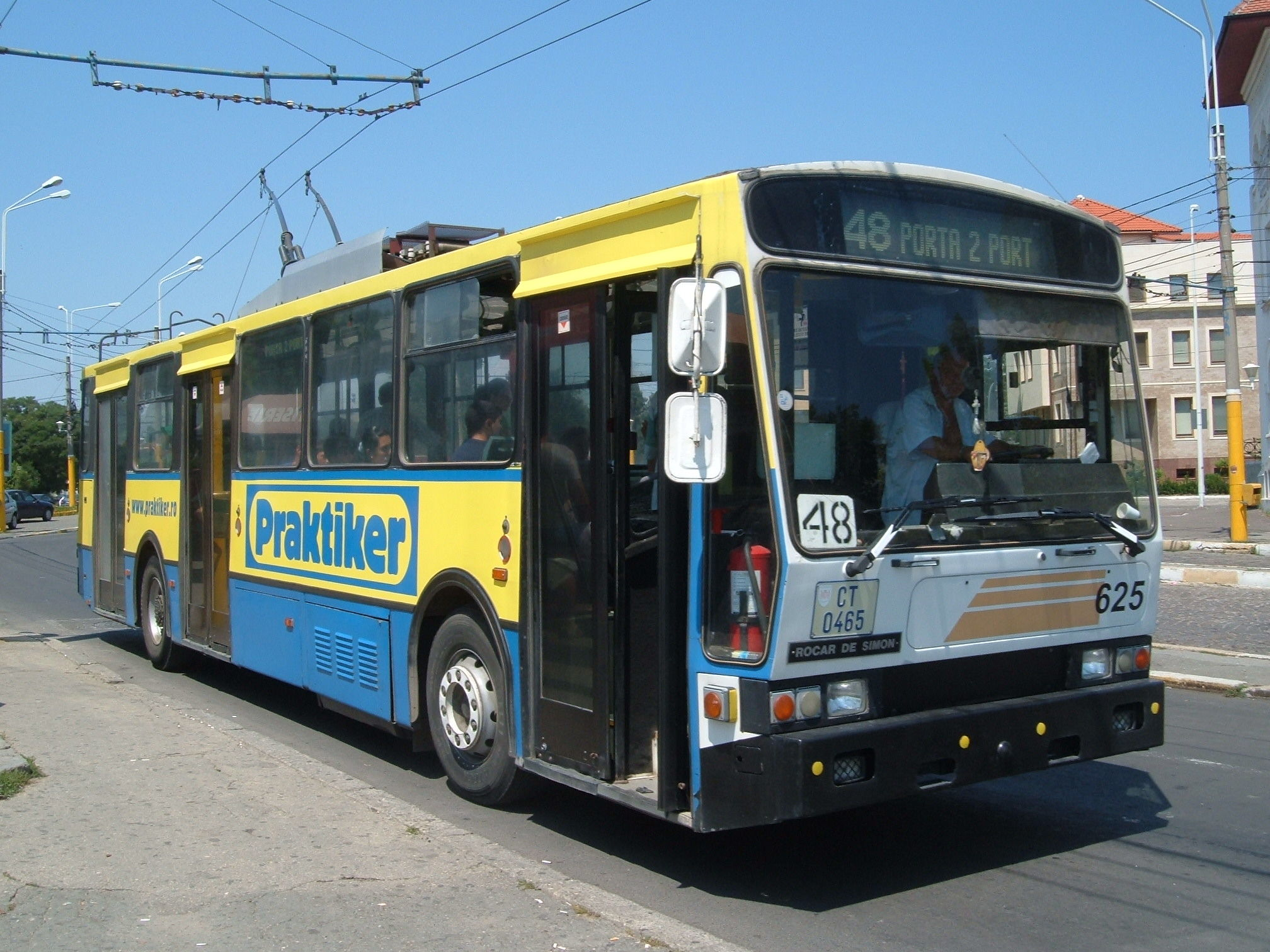 Rocar De Simon U412E in Constanta.